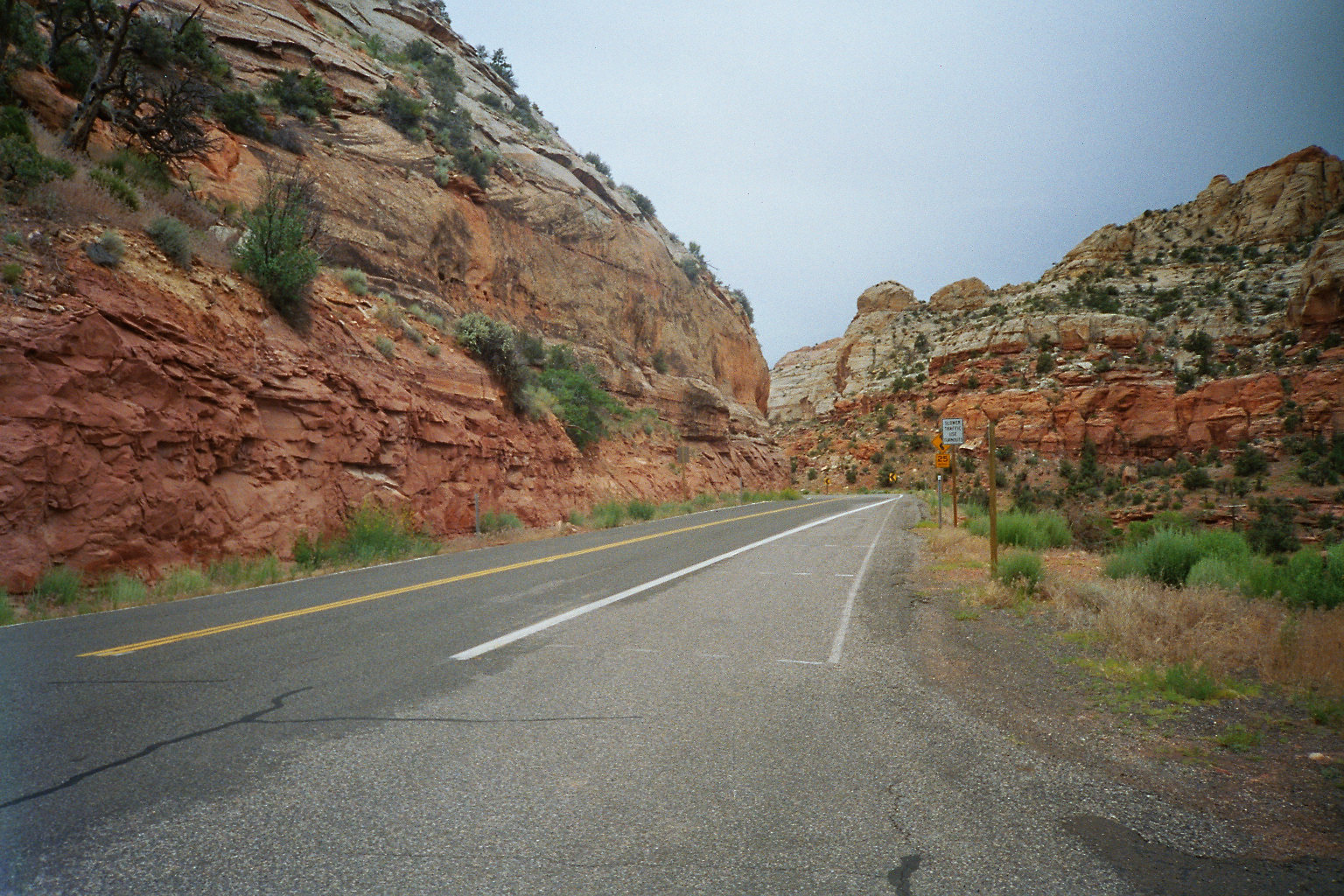 Garfield county SR12 south Photo taken by myself in June 2005 author:R.Blauert Dk4hb